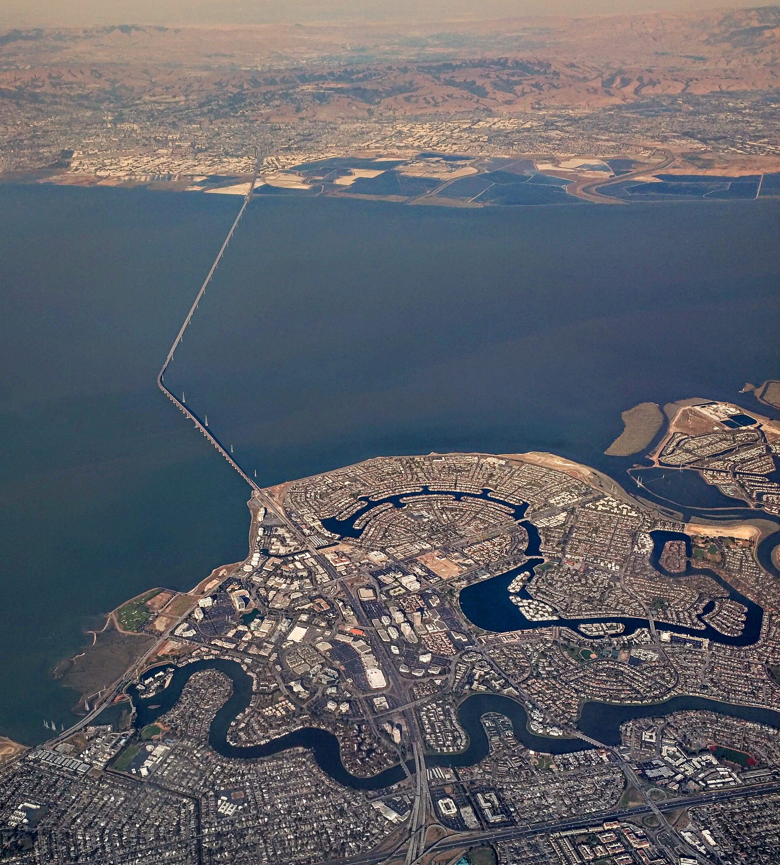 Aerial view of Foster City (foreground and center) and the San Mateo Bridge